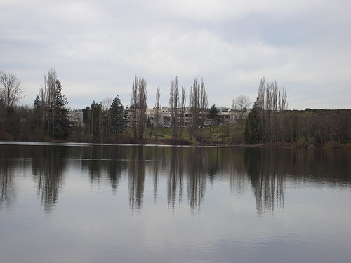 As seen from the far side of Lake Waughop in Fort Steilacoom Park